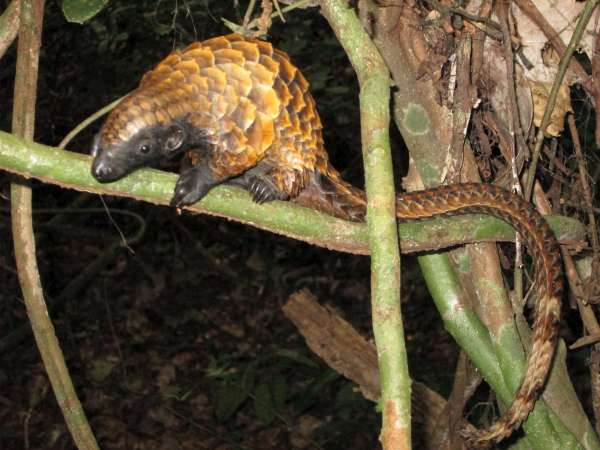 Photo credit to Rod Cassidy / Sangha Lodge The United States is co-sponsoring four separate proposals to increase CITES protections for pangolins from Appendix II to Appendix I